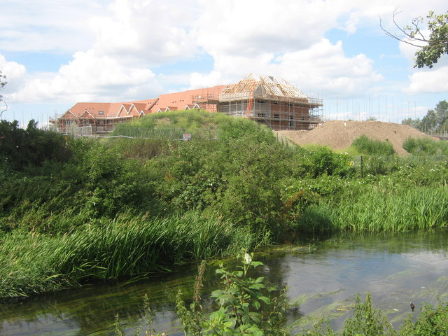 Construction of a new estate near Kingsmead, Canterbury This is the creation of Kingsmead Park by Berkeley Homes, on Barton Fields, beside the River Stour. As seen from the coach park on Kingsmead Road.